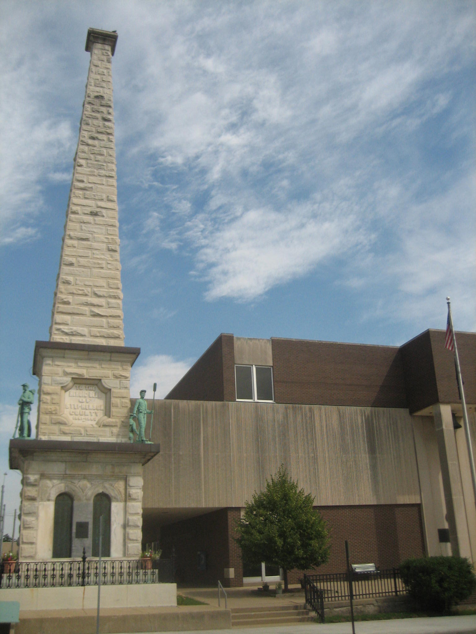 Soldiers' Monument, flanked by the Stephenson County Courthouse, Freeport, Illinois, USA. U.S. National Register of Historic Places.